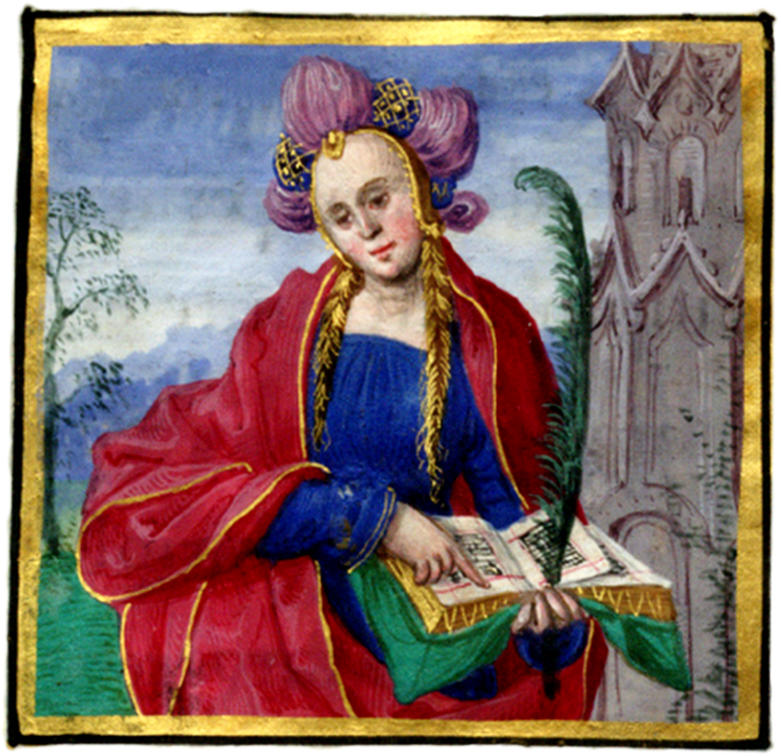 Page detail from Mediaeval Book of Hours (1533)